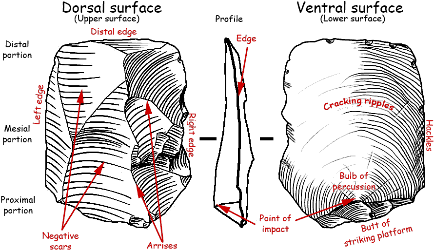 Lithic flake on flint, with its fundamentals elements for technic description